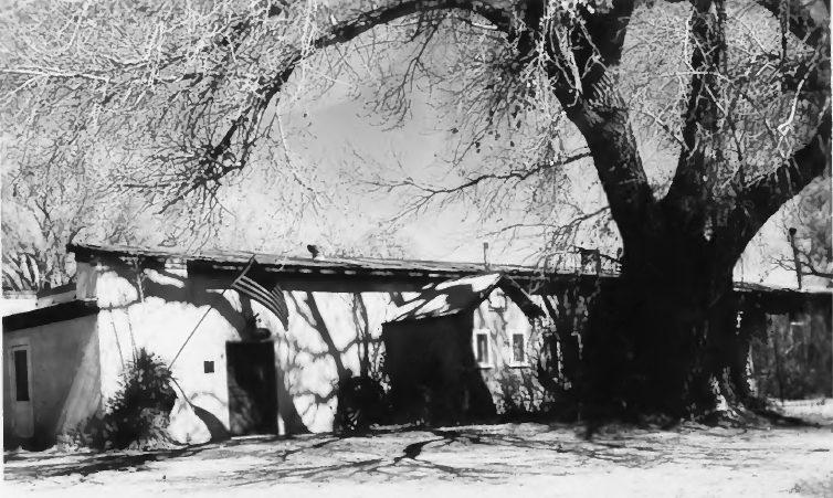 Ranch house at Sierra Bonita Ranch — present day main entrance. Located in Graham County, Arizona. Photo 3/16/75